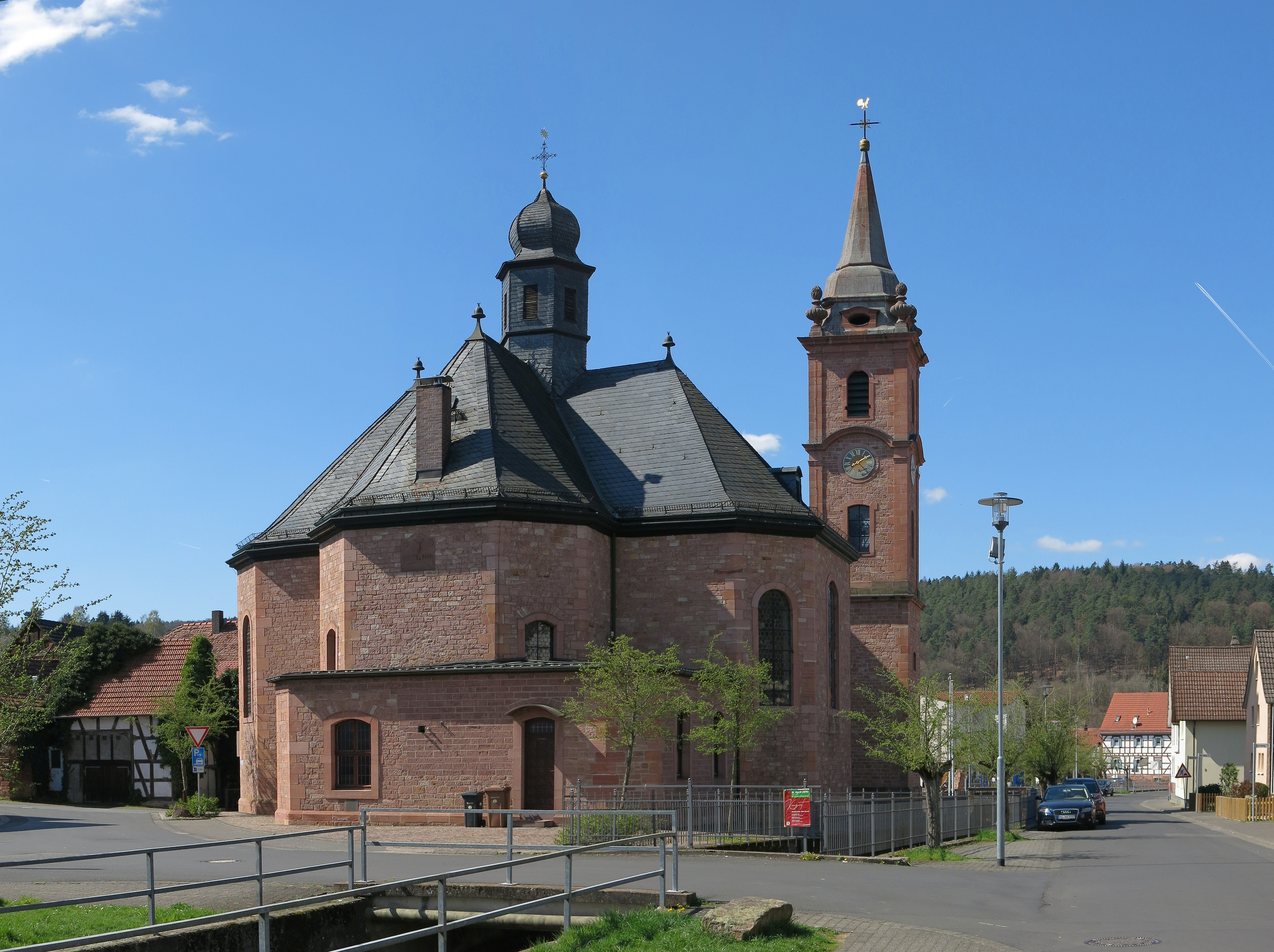 Catholic Church in Biebergemünd-Kassel, Hesse, Germany